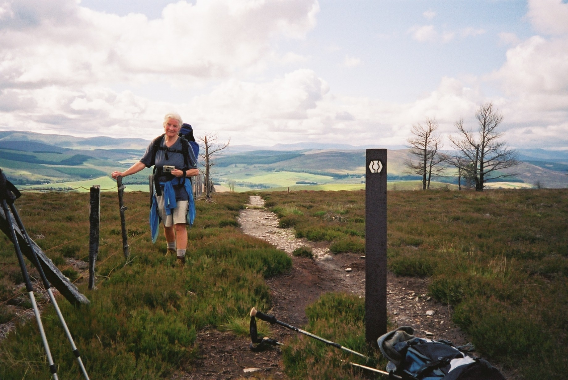 A walker near Glenlivet